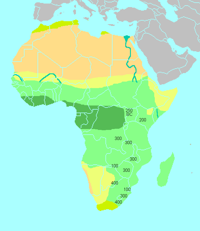 Spread of the "Early Iron Age" in Eastern, Central and Southern Africa, a proxy for the Bantu migrations. Based on K. Shillington, History of Africa (3rd ed. 2005), p. 63. Urewe (Lake Victoria) 250 BCE, Kwale 200 CE, Kisale 300 CE, , Kalundu/Dambwa 100 CE , Kalambo 300 CE, Nkope 300 CE, Gokmere-Ziwa/Bambata 300 CE, presence in South Africa (Kei river) by 400 CE.